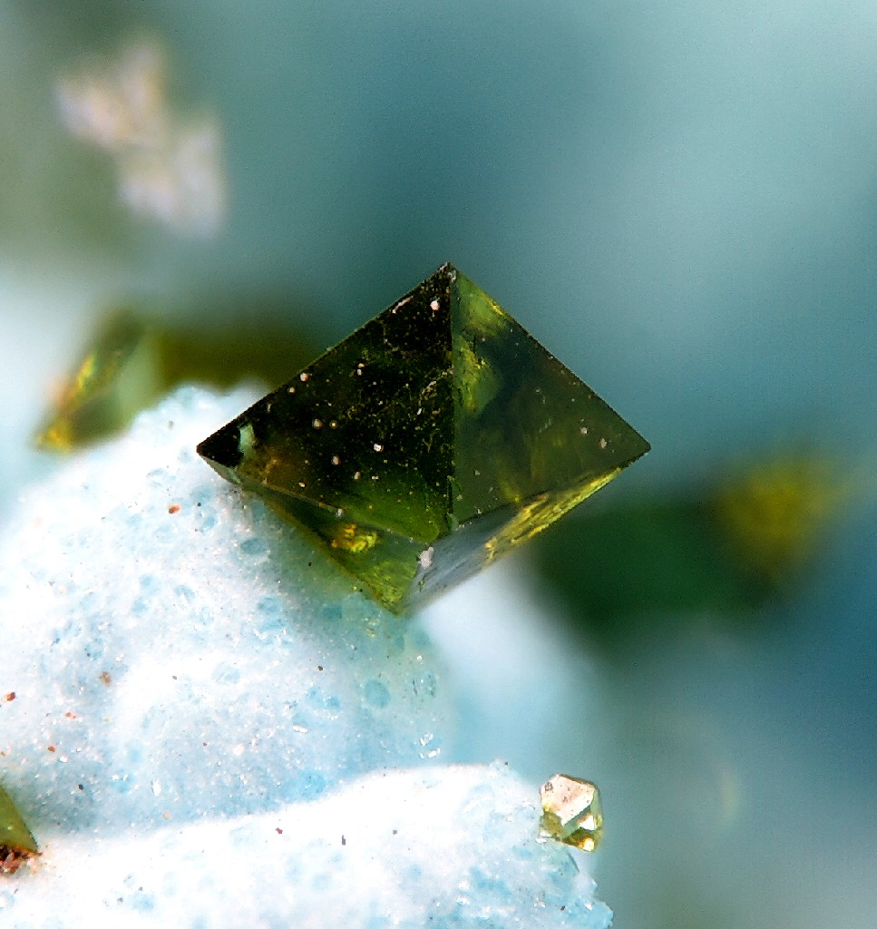 Libethenite, Zapatalite Locality: Miguel Vacas Mine, Pardais, Vila Viçosa, Évora District, Portugal (Locality at ) Libethenite on pale blue zapatalite. Picture width 3 mm. Collection and photograph Christian Rewitzer